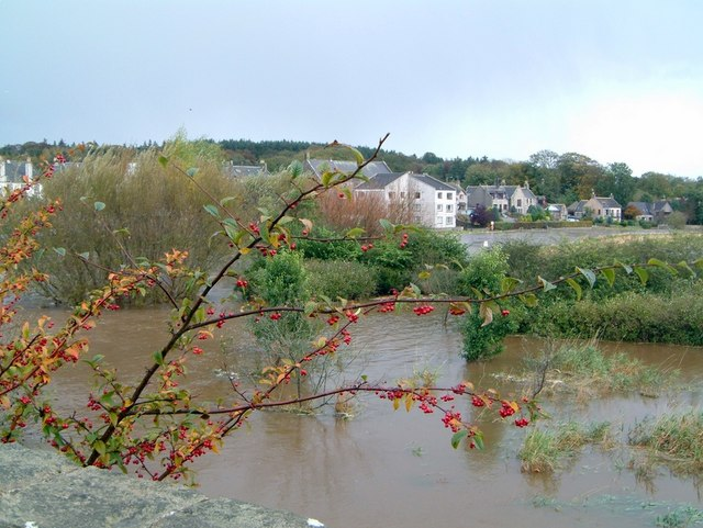 River Ythan in flood